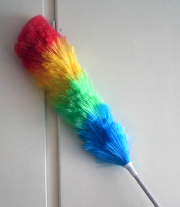 Feather duster